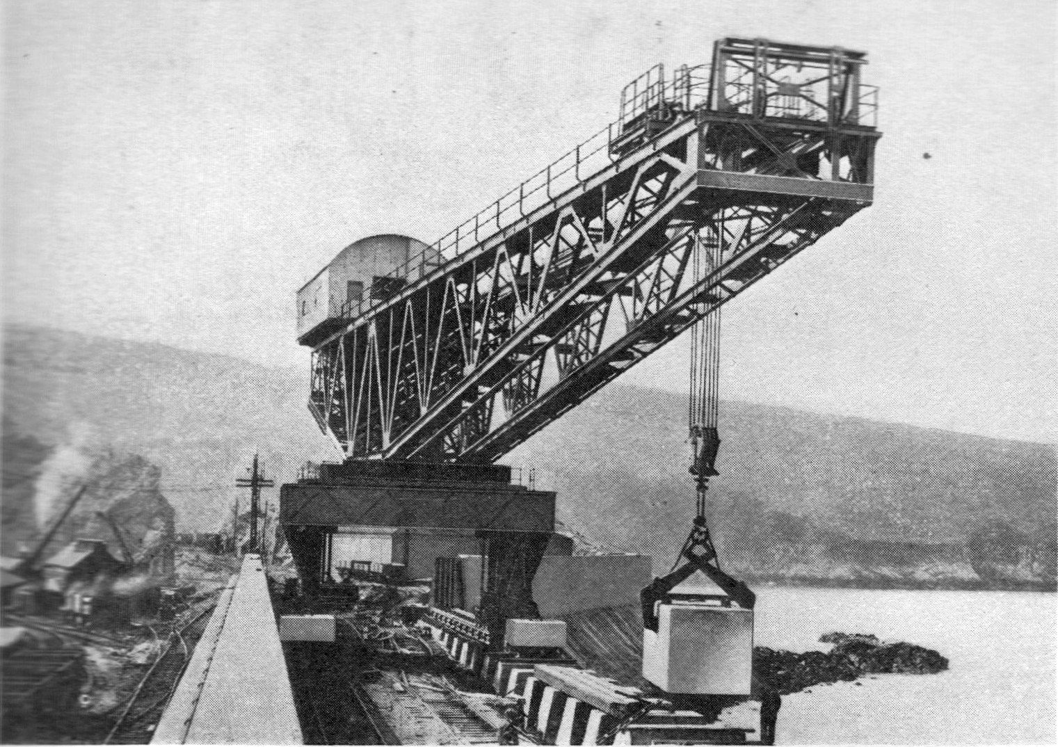 A Block-setting crane placing a huge concrete block in position on a breakwater Photo: Stothert & Pitt Ltd. Note the use of a large lewis to hold the block.